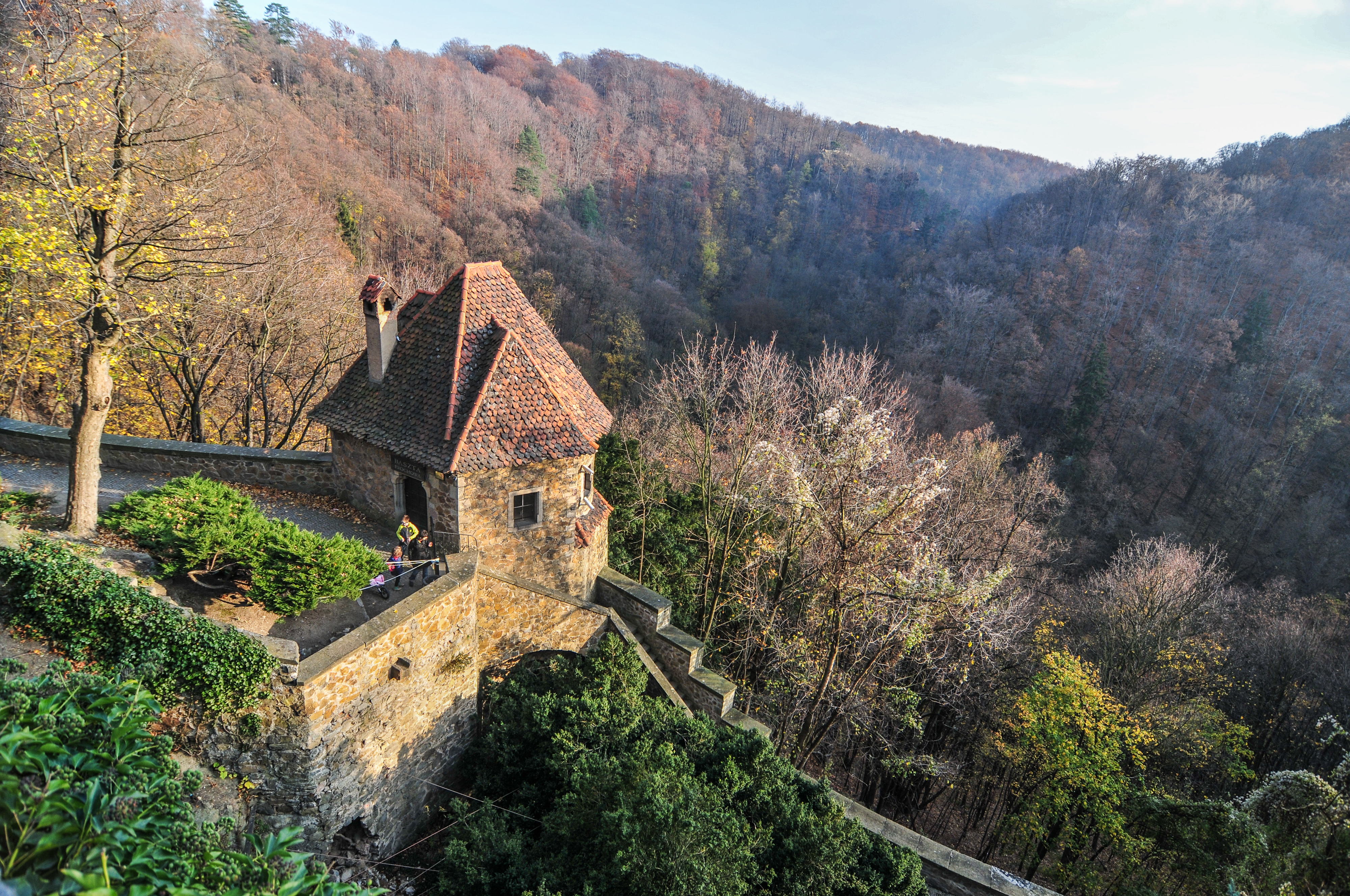 The part of Ksiaz Castle in Walbrzych, Poland